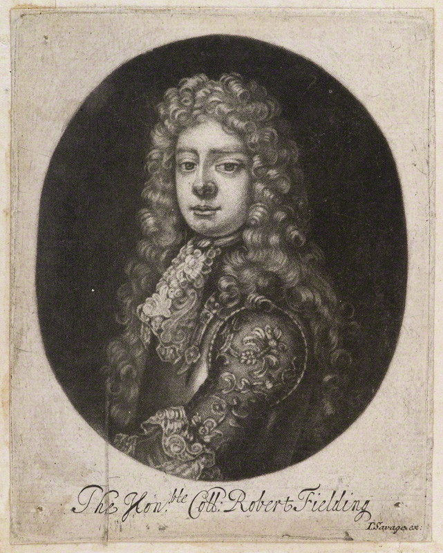 Portrait of Robert Fielding (c.1650–1712), English bigamist and rake, known as Beau Fielding or Feilding.